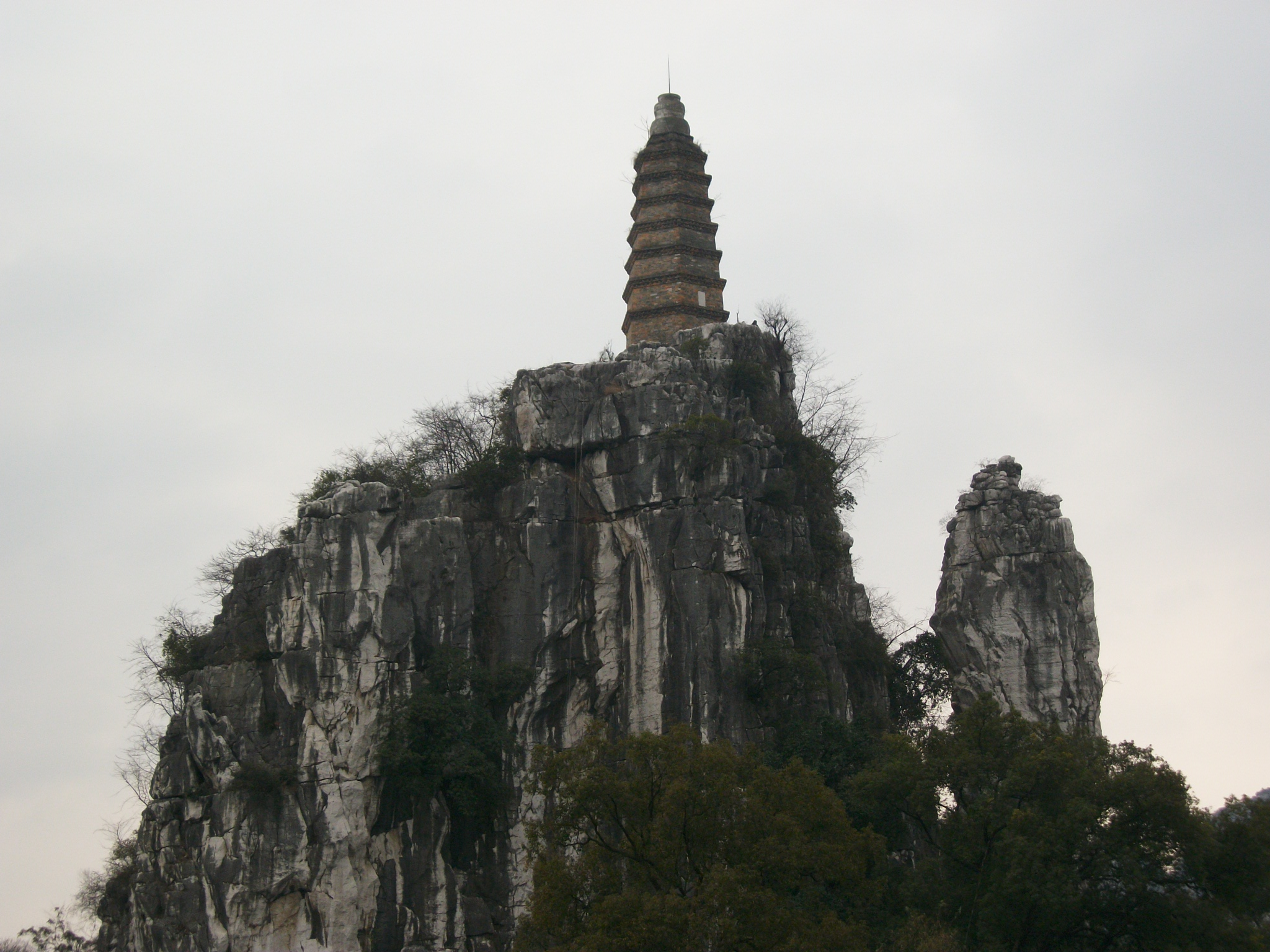 Tashan Hill, Guilin.